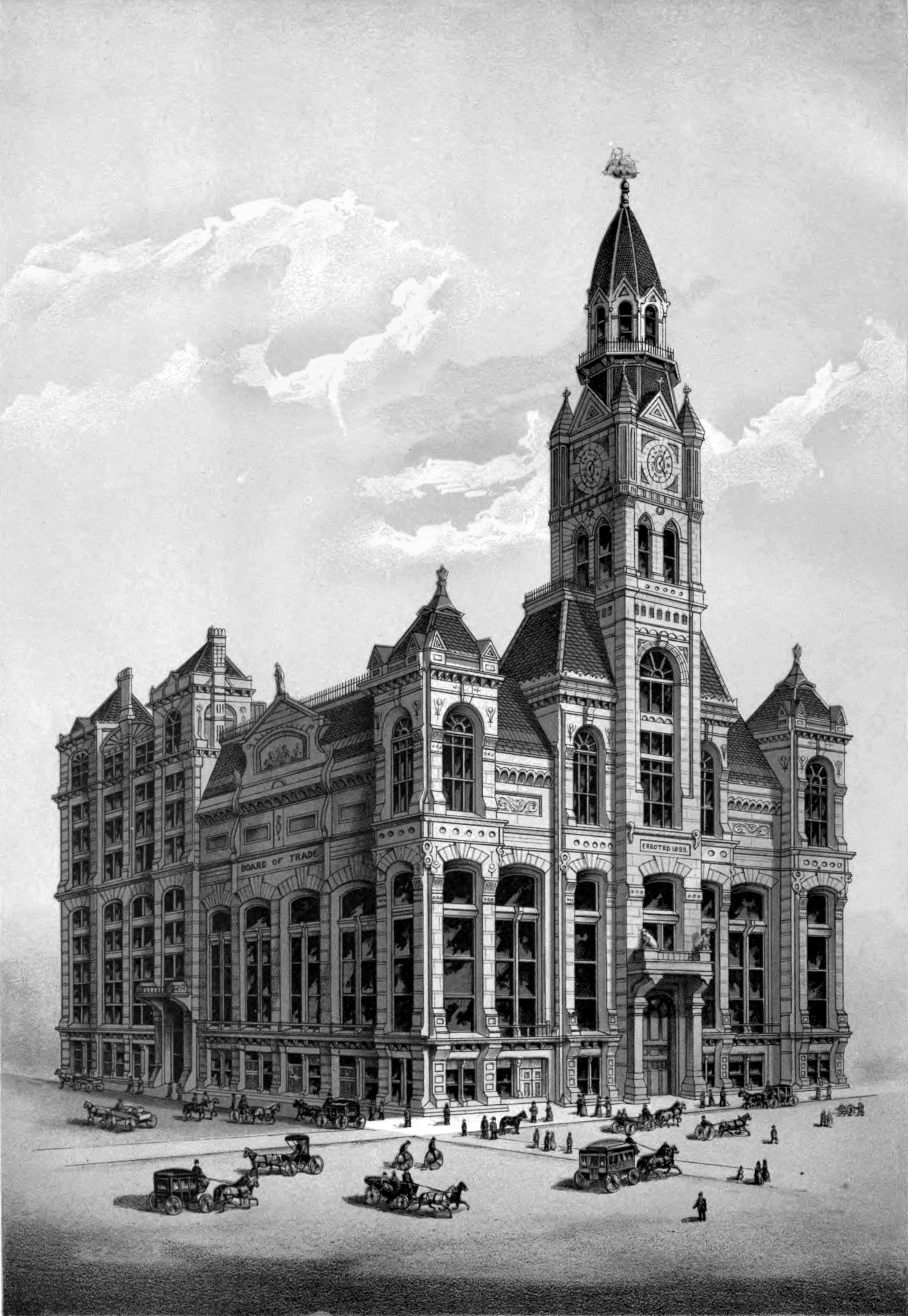 Frontisepiece of the book, showing the Chicago Board of Trade Building designed by William W. Boyington, 1885